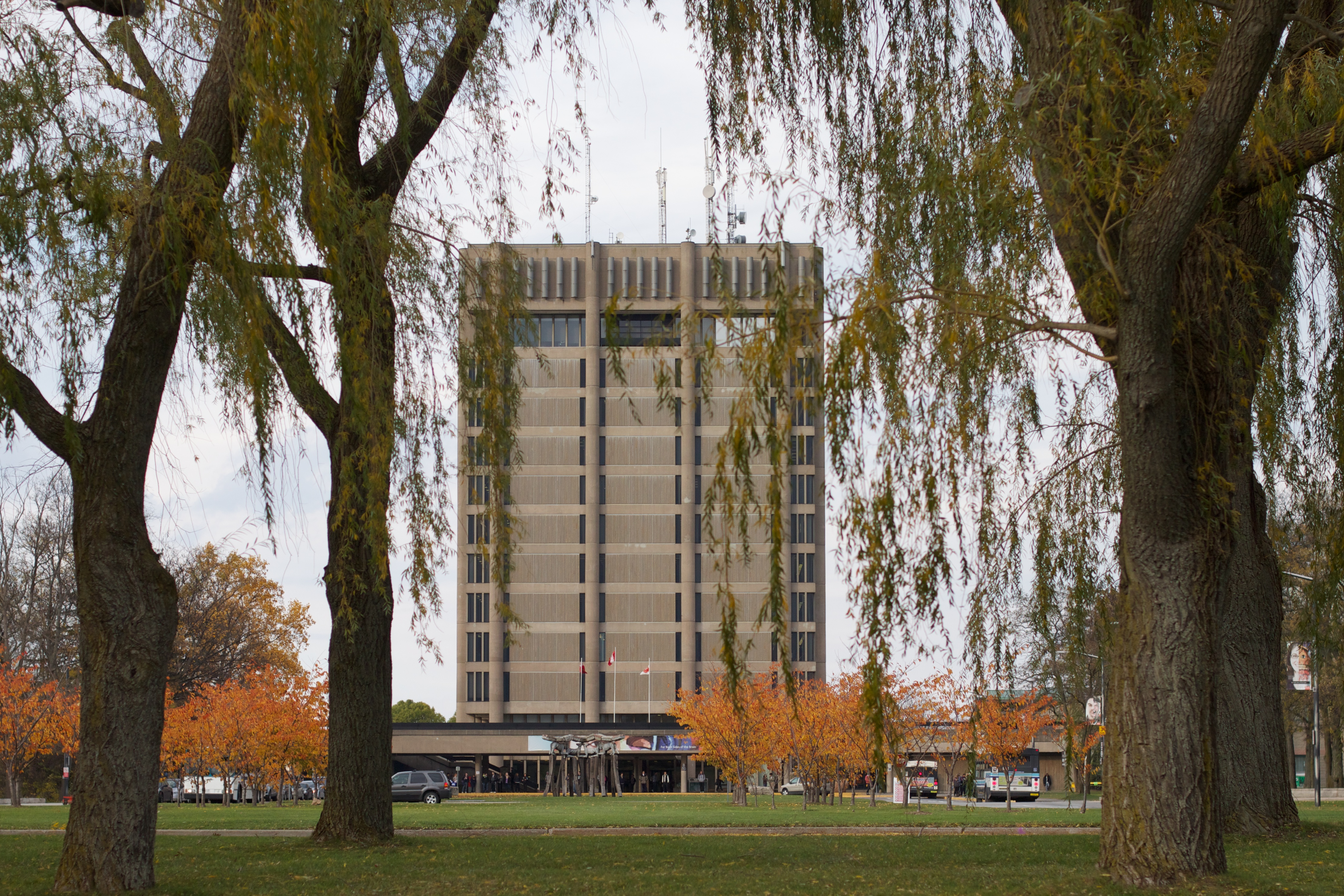 Brock University centerpiece.